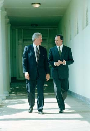 American President William Jefferson (Bill) Clinton and Australian Prime Minister Paul John Keating in the West Wing of the White House during a state visit in 1993.